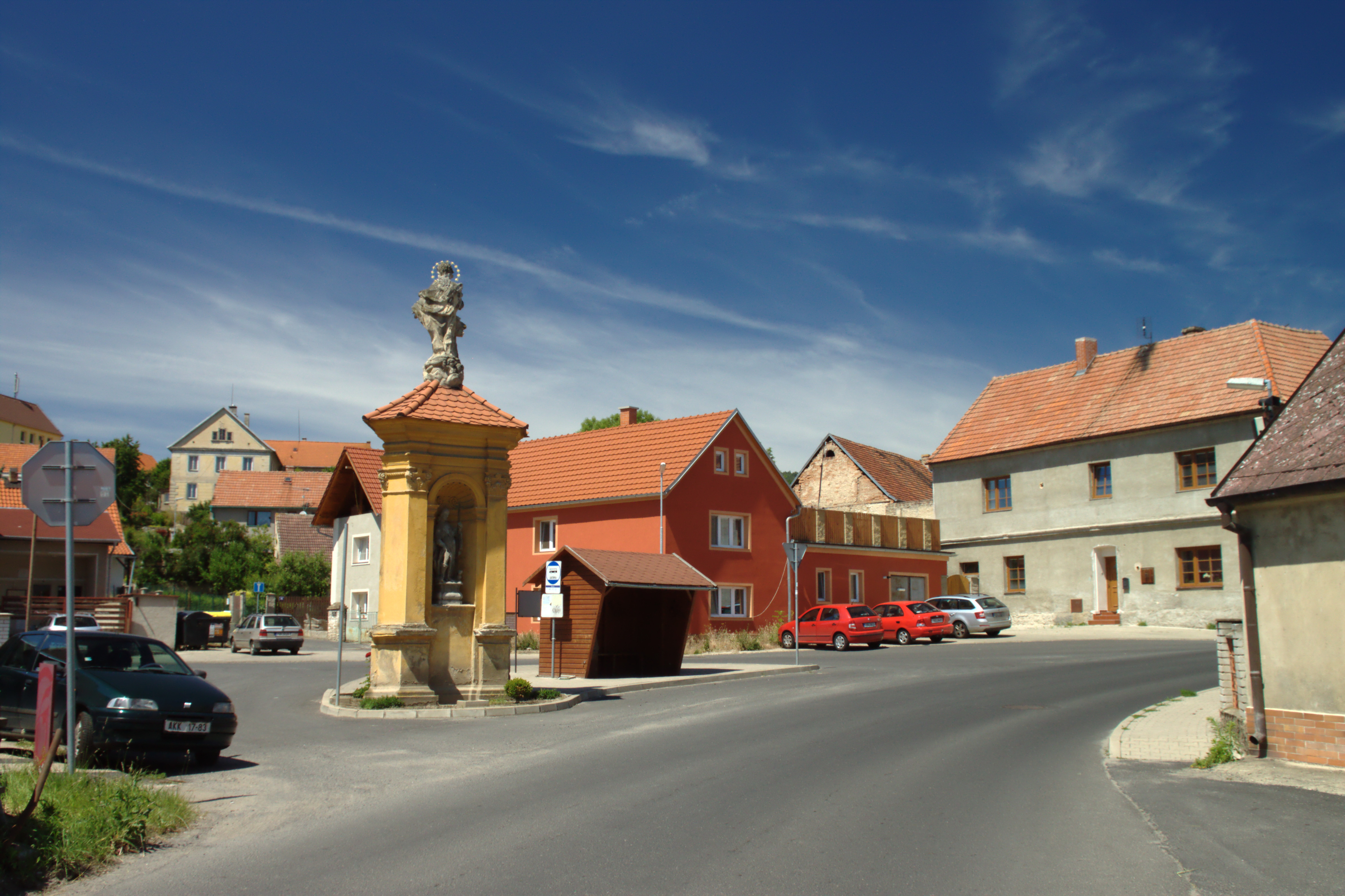 A common in Žitenice, Ústí Region, CZ